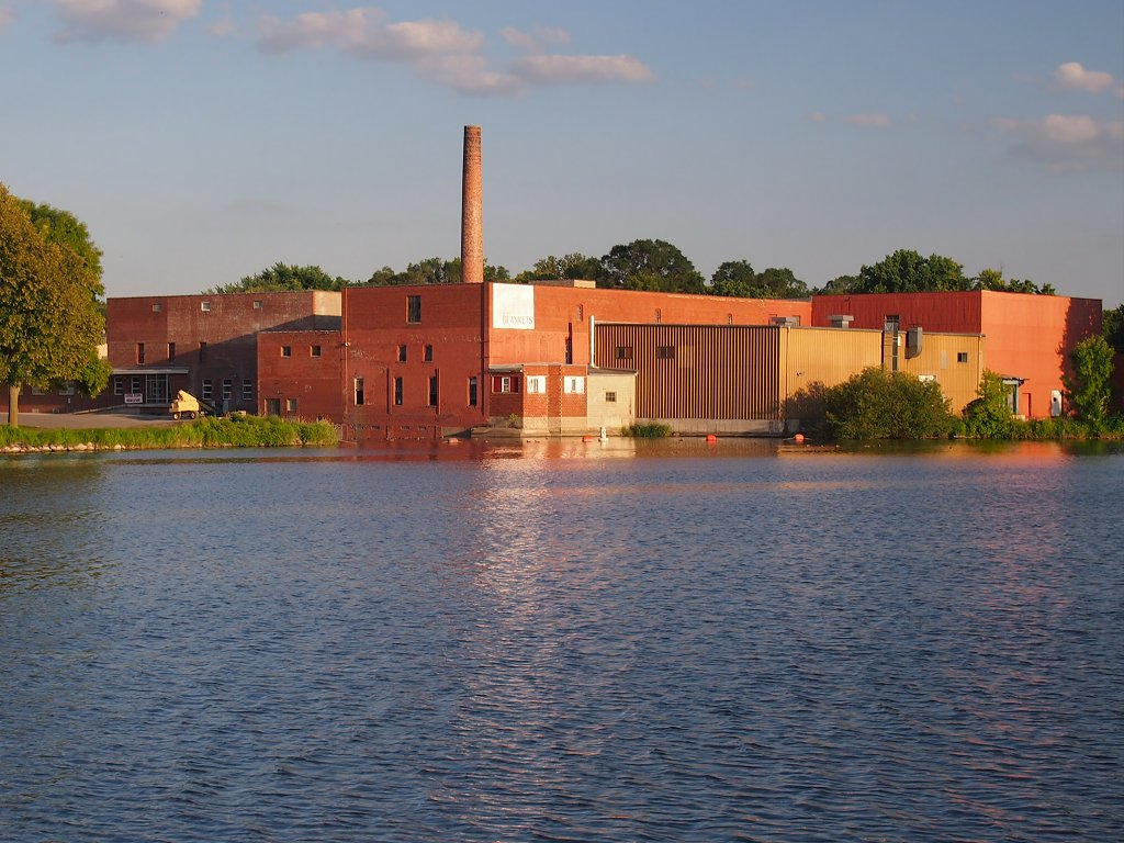 Faribault Woolen Mill Company from North Alexander Park, Faribault, Minnesota, USA. Taken from the northwest near sundown on a summer evening for golden hour light and light on northern façades. It's hard to make factories look pretty, but perhaps this comes close.